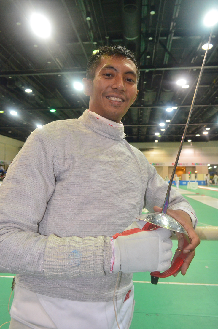 Wiradech Kothny 6